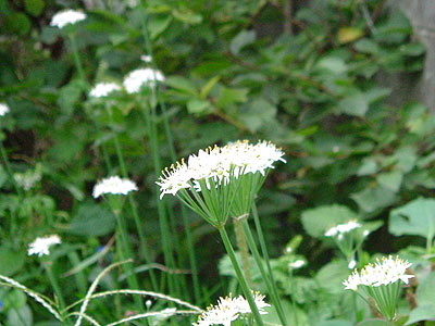 Flower of allium tuberosum